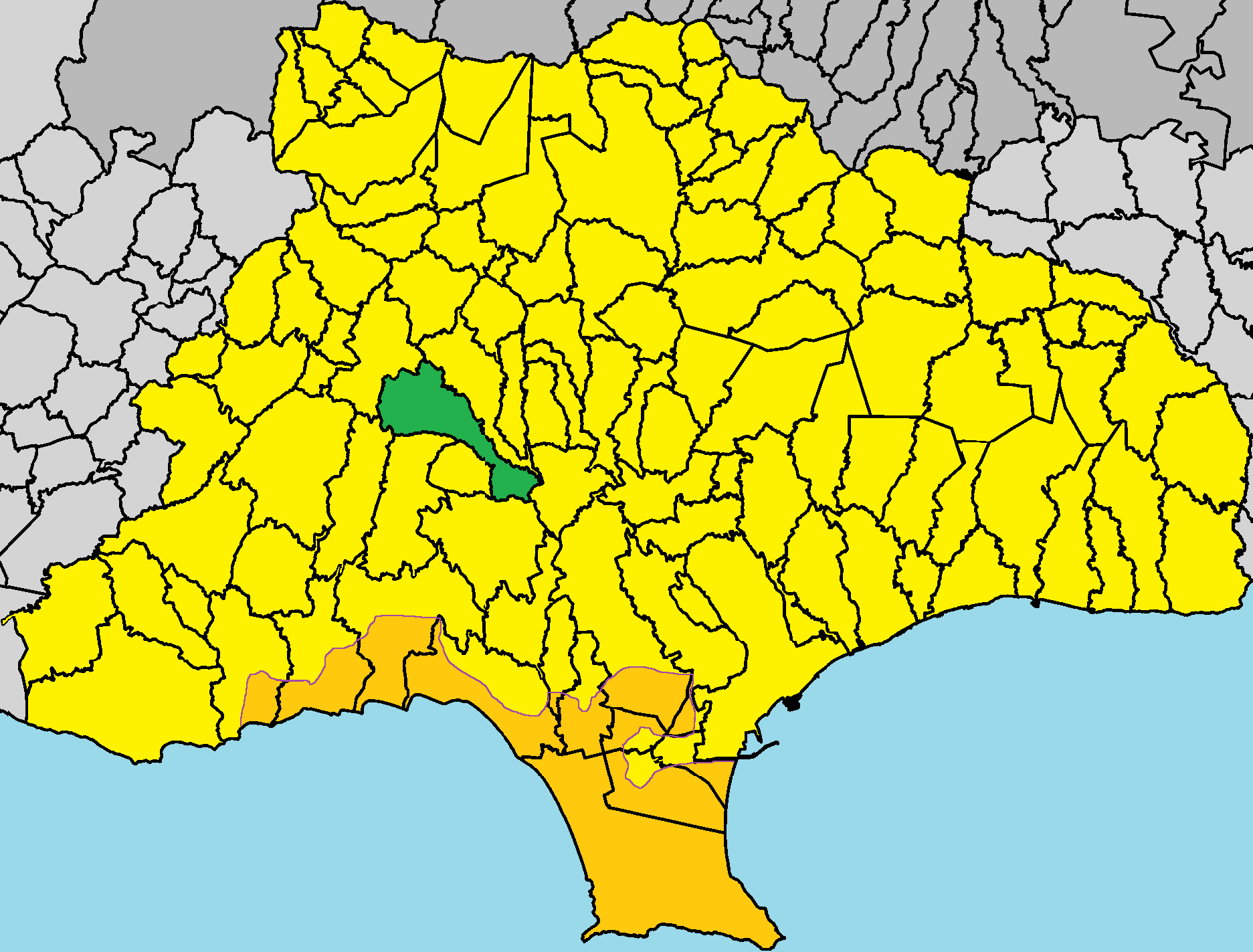 Agios Therapon in Limassol District.